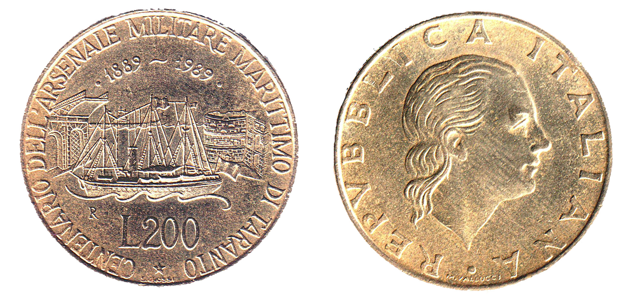 200 lire arsenale taranto